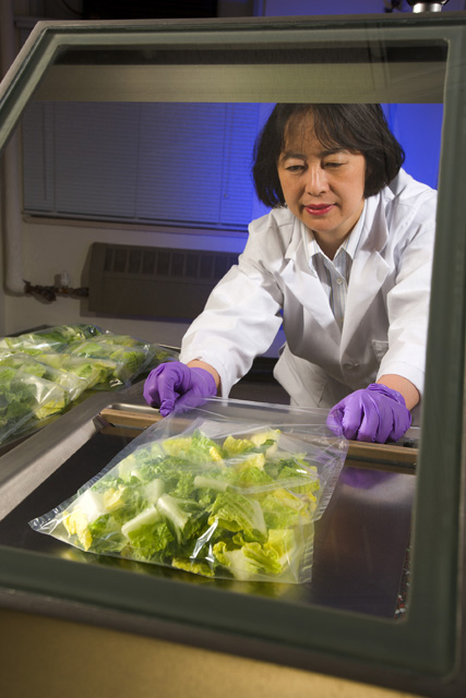 In a study to test package film permeability and shelf life of fresh-cut produce, food technologist Yaguang Luo prepares to seal romaine lettuce.